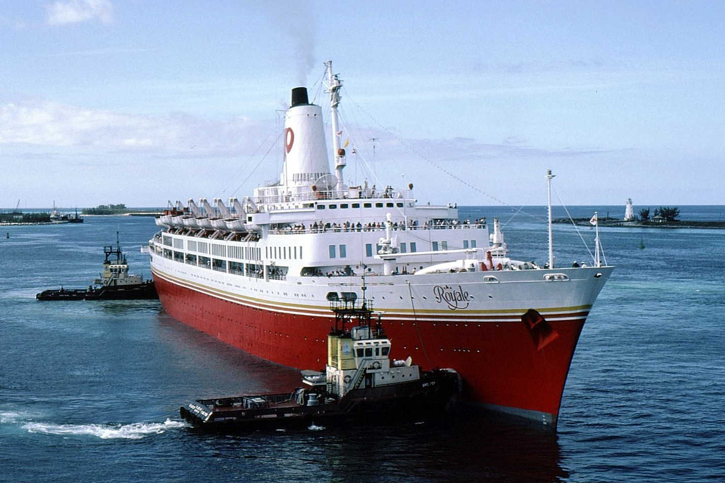 The cruise ship Royale at Nassau on November 23, 1985.